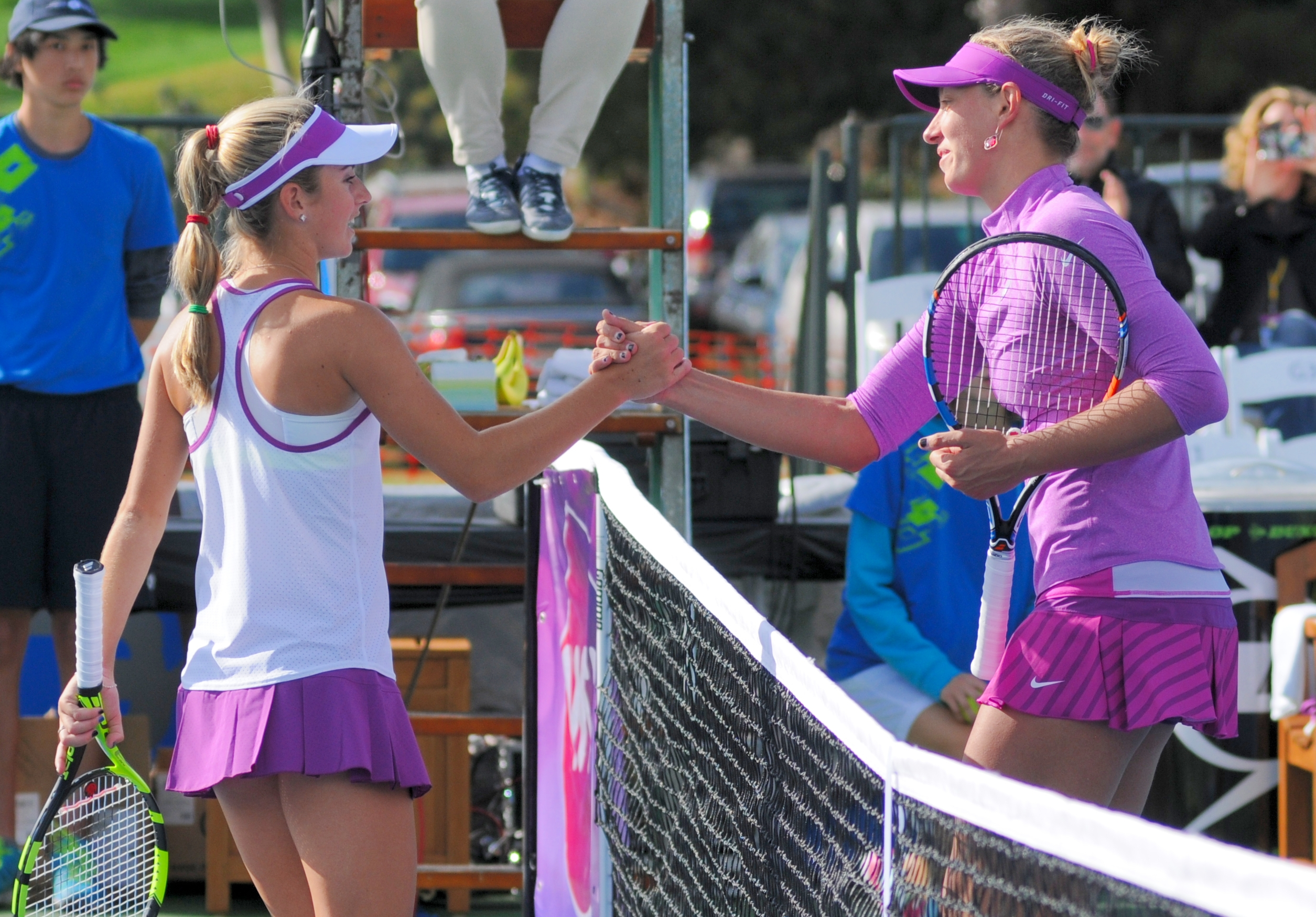 2015 Carlsbad Classic